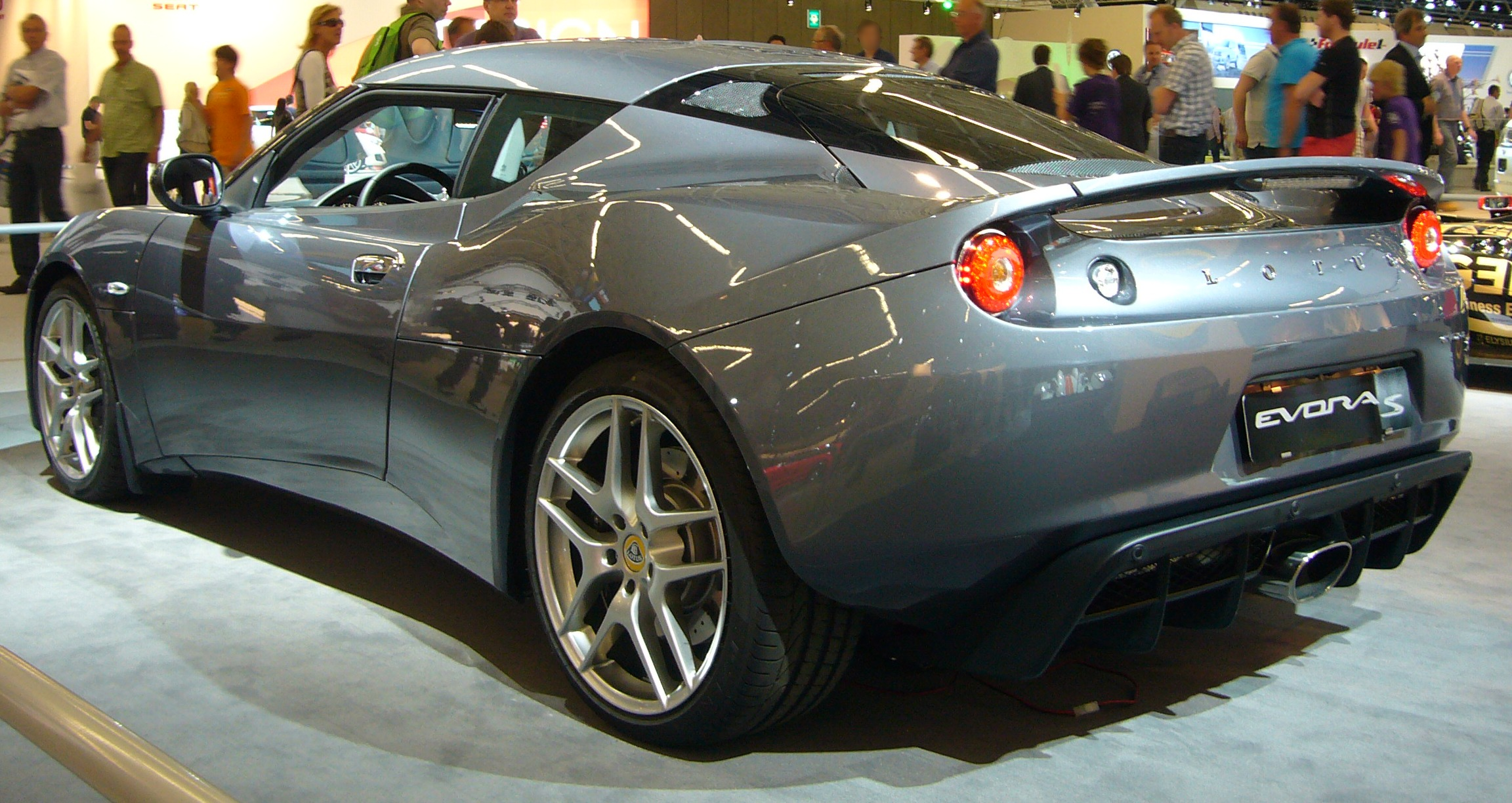 Lotus Evora S at AutoRAI Amsterdam 2011